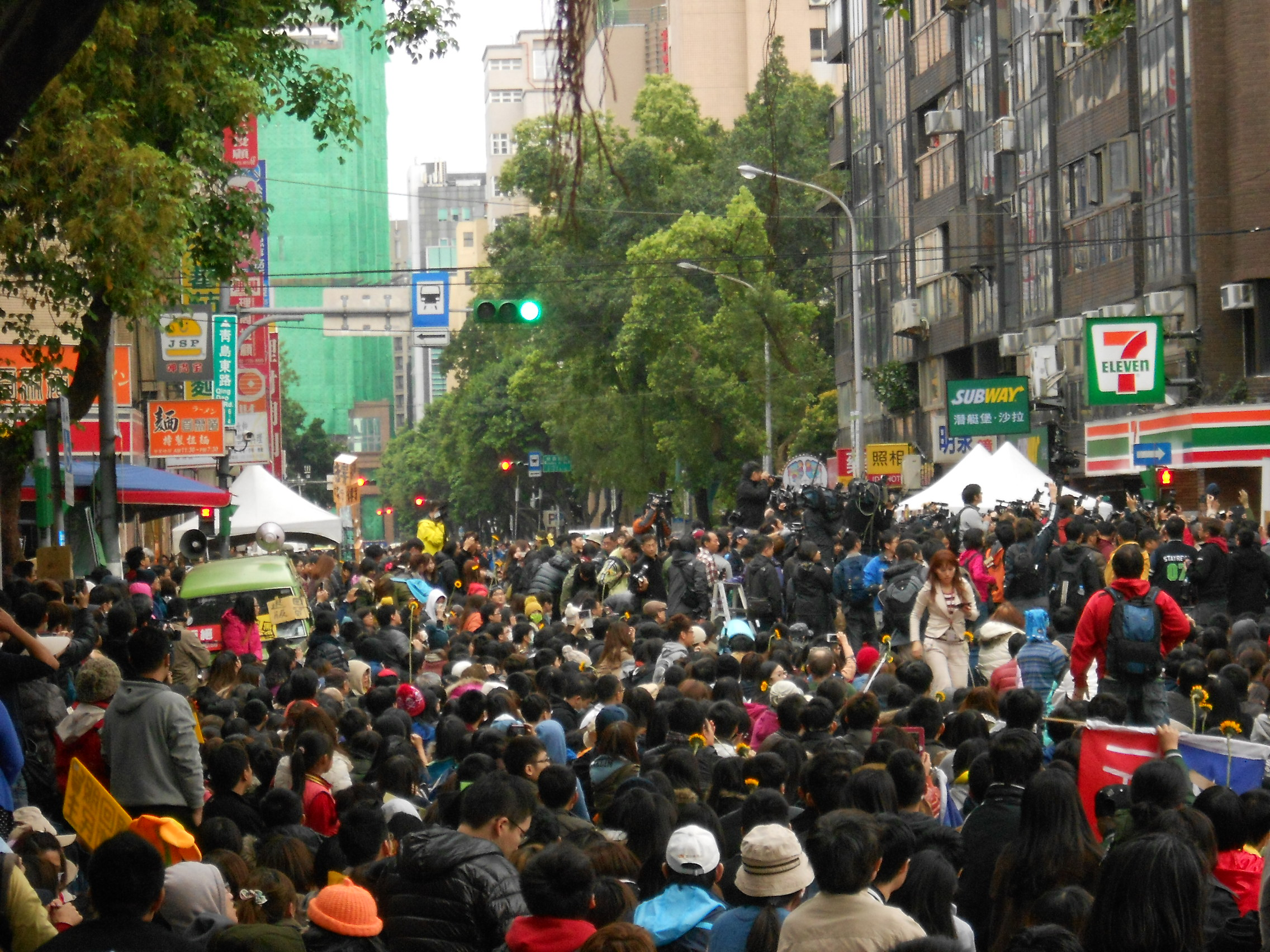 The Protesters in Qingdao East Road, Taipei City, Taiwan. They are waiting on Jiang Yi-huah, The Premier of the Republic of China to reply. (2014/03/22 About 4:00pm)